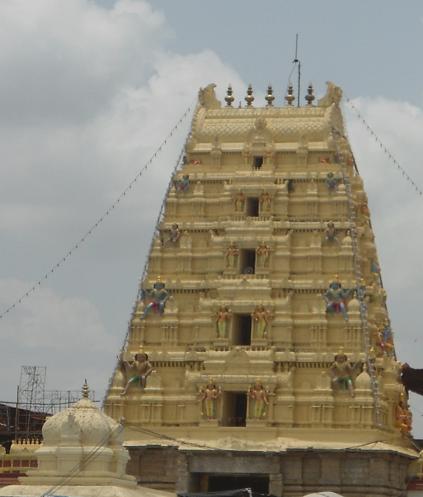 Bhadrachalam temple View from Lord Yogananda Narasimha Temple